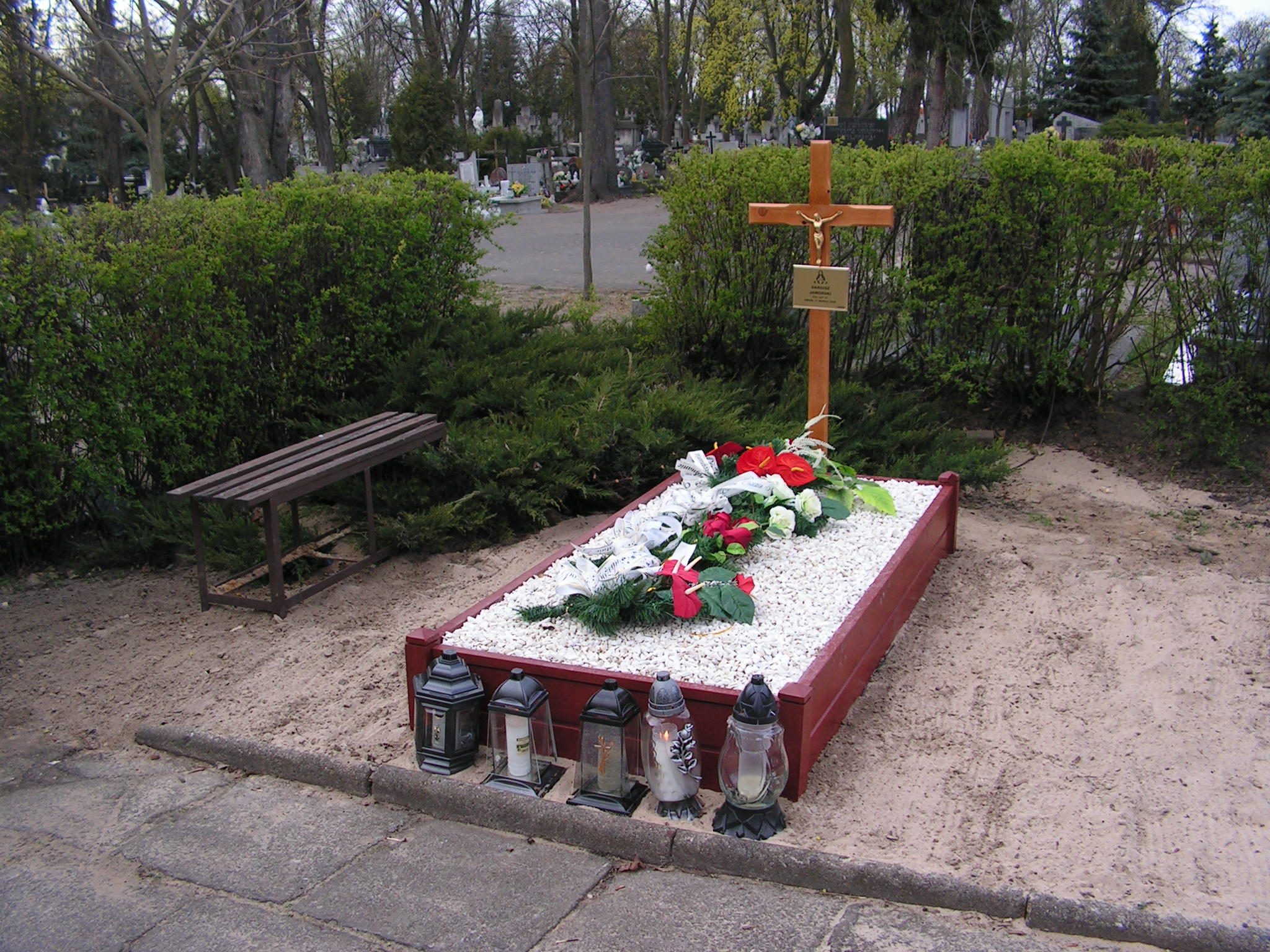 Grave of Dariusz Jaworski on the notable people's section of Communal Cemetery in Włocławek.